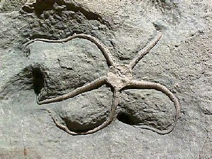 Palaeocoma egertoni from the Jurassic Middle Lias Formation, "Starfish Bed". Locality - Bridport, Dorset, England. Complete specimen, which measures 9.5 cm (3.7") across, on matrix.